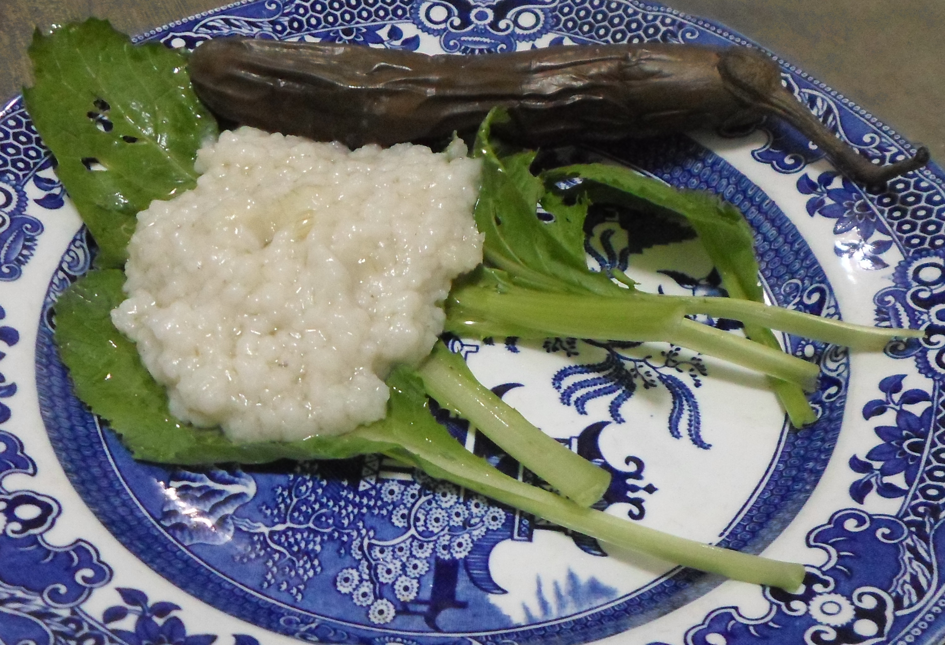 Buro (fermented rice) with mustard leaves ("mustasa") and eggplant ("balasenas").